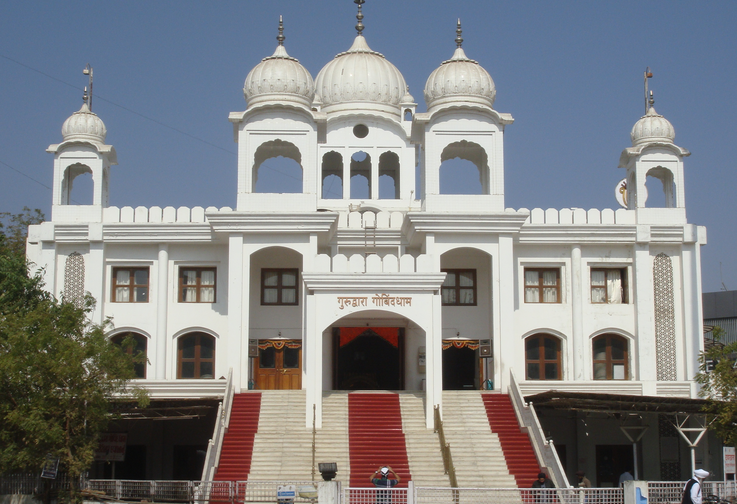 Place of worship